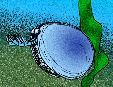 The predatory arthropod, Forfexicaris valida, of the Cambrian Maotianshan shale Lagerstätte